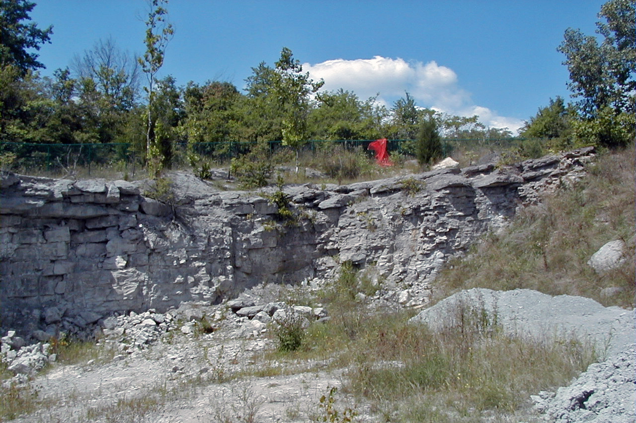 Limestone in the Devonian of Ohio, USA. Limestone is the third most common sedimentary rock on Earth. It is a biogenic sedimentary rock composed of calcium carbonate in the form of calcite (CaCO3) and sometimes aragonite (also CaCO3). Numerous named varieties of limestone exist. Many limestones are gray-colored with visible fossils and fossil fragments. Stratigraphy: Dundee Limestone, Middle Devonian Locality: old quarry at "Fossil Park" (= Medusa North-North Quarry), just southwest of Centennial Quarry, north of Brint Road & west of Centennial Road, western side of the town of Sylvania, northwestern Lucas County, northwestern Ohio, USA (41° 42' 46.62" North latitude, 83° 44' 53.57" West longitude)